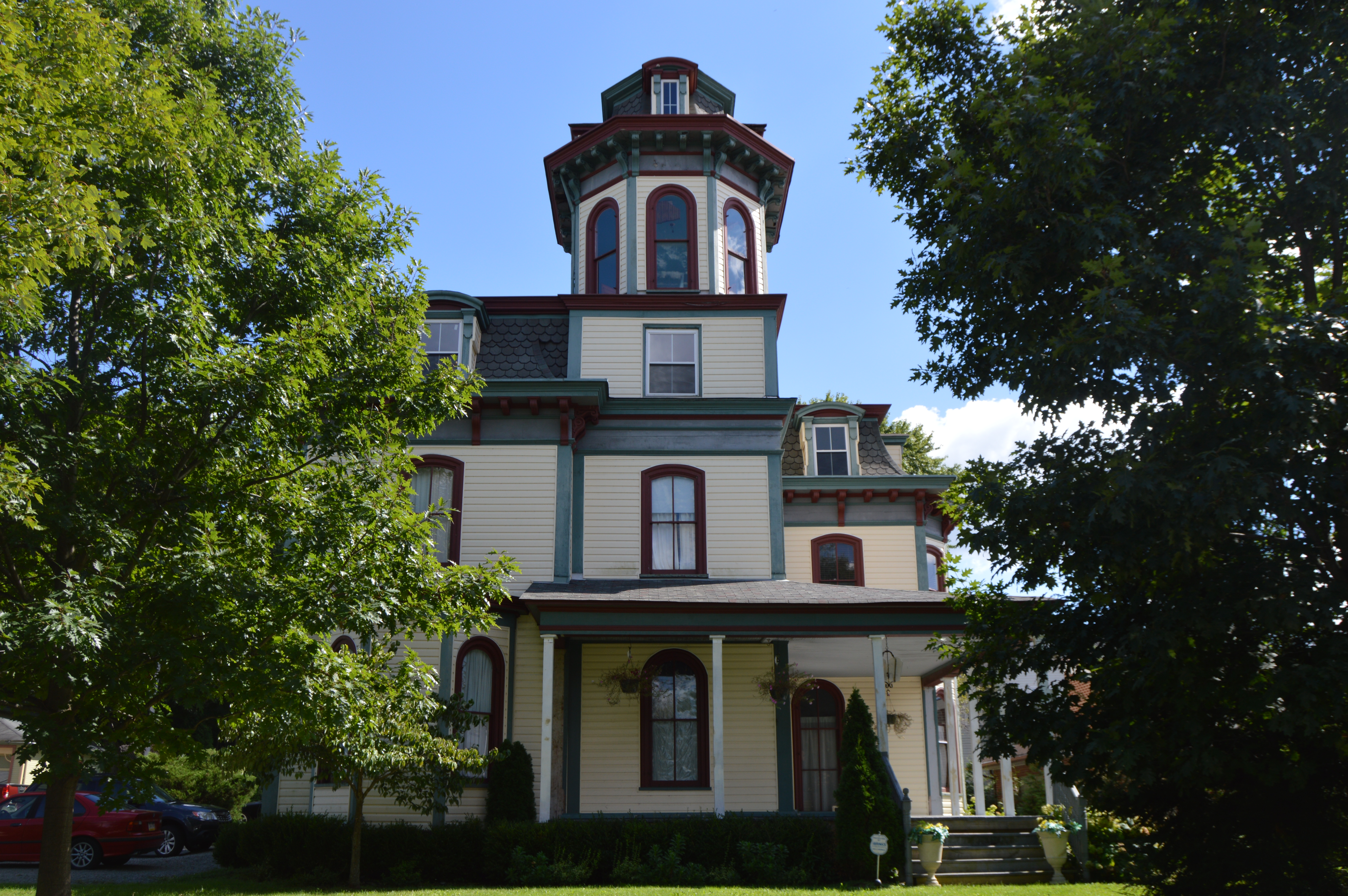 Front of the Jonas J. Pierce House, located at 18 E. Shenango Street in Sharpsville, Pennsylvania, United States. Built in 1868, it is listed on the National Register of Historic Places.